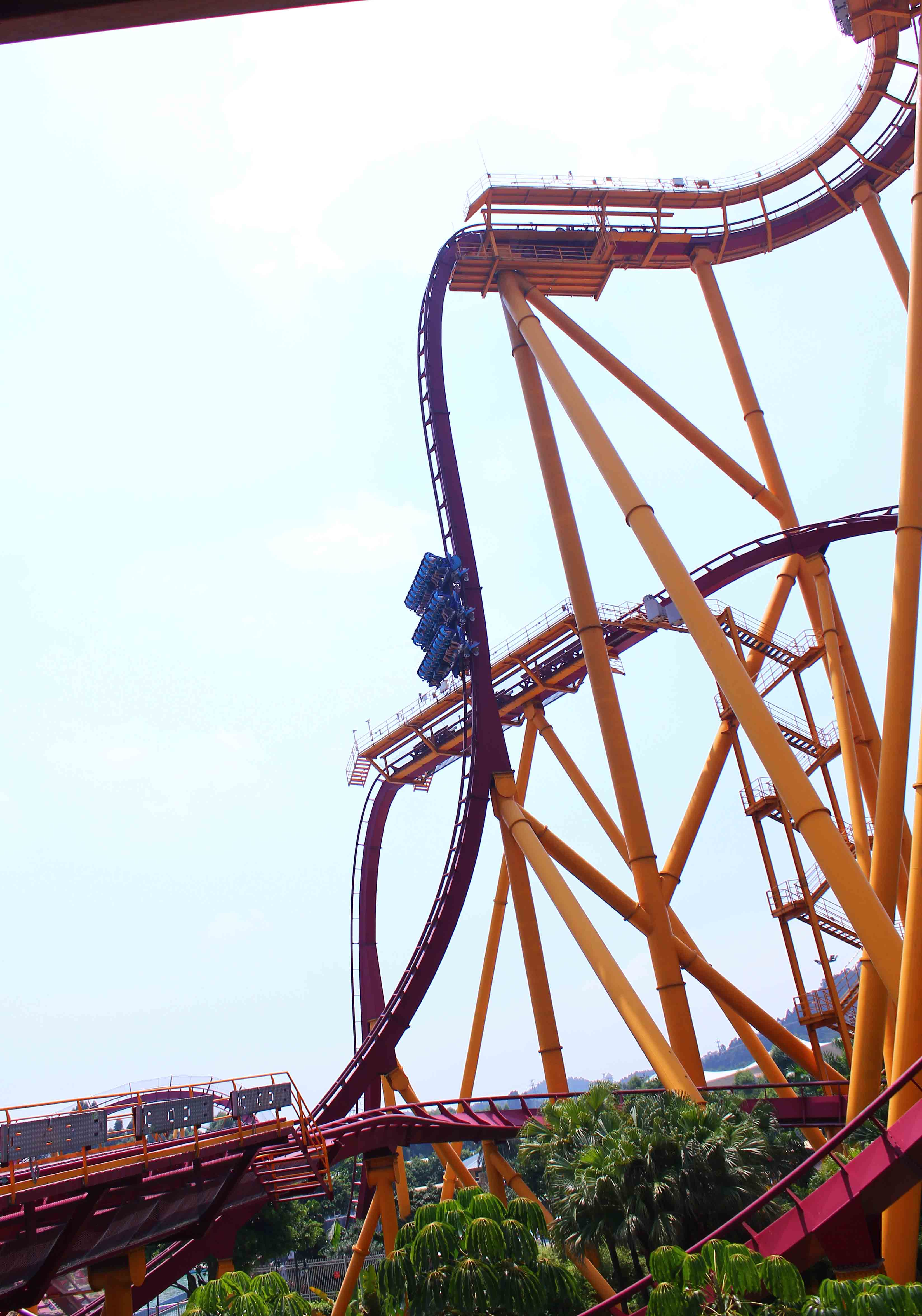 Dive Coaster in Chime-Long Paradise in Guangzhou，China.